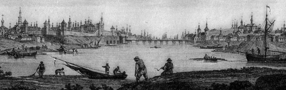 NOVGOROD. On both sides of river Volkhov, seen from an island in the south.